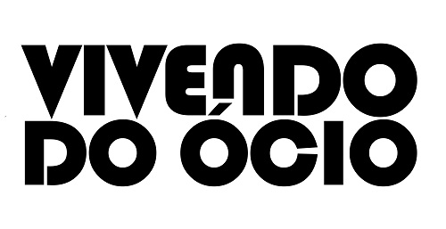 Logo Vivendo do Ócio